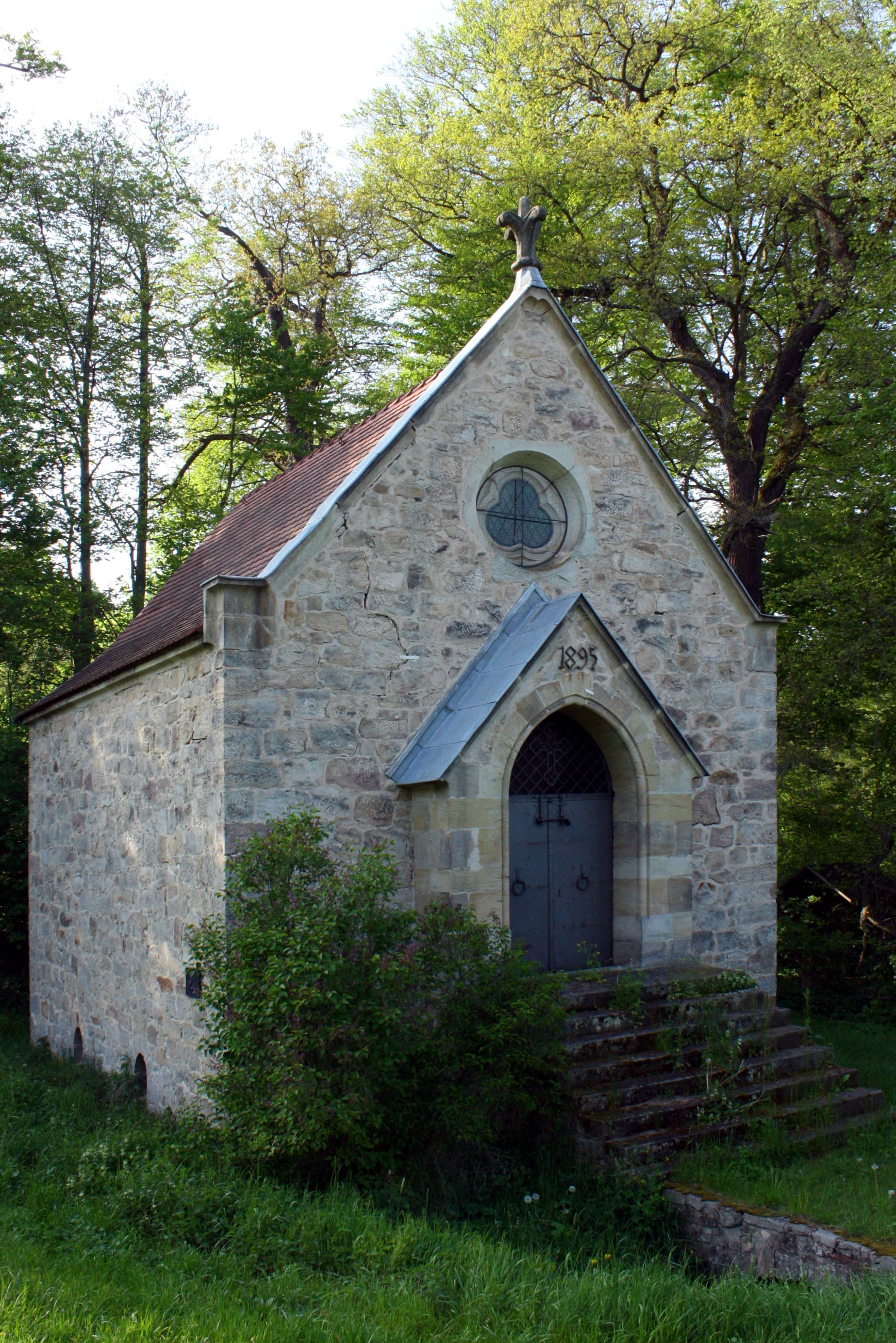 Vault chapel in Uhlstädt-Kirchhasel - Kuhfraß near Rudolstadt/Thuringia